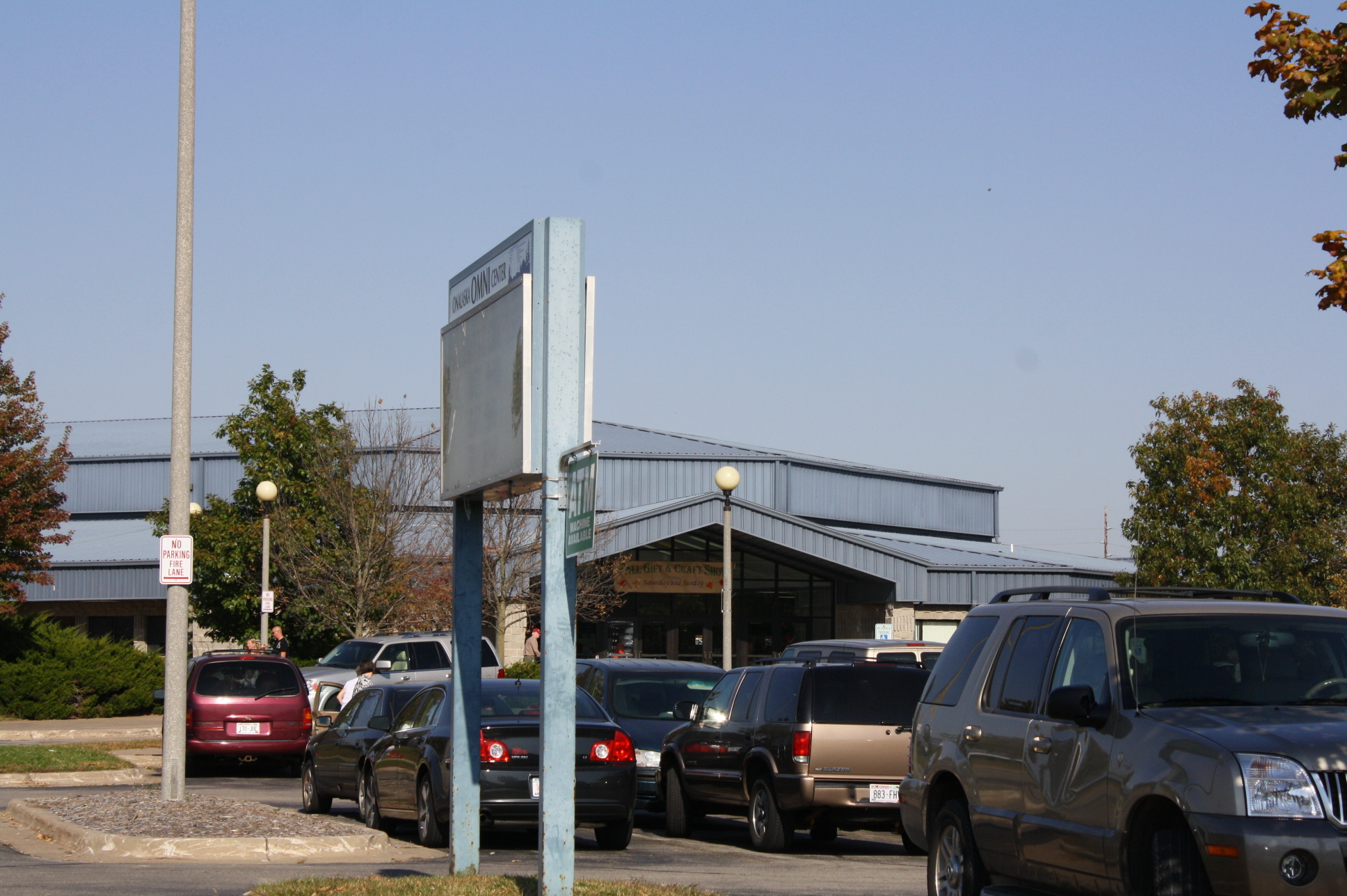 The Onalaska OmniCenter in Onalaska, Wisconsin.